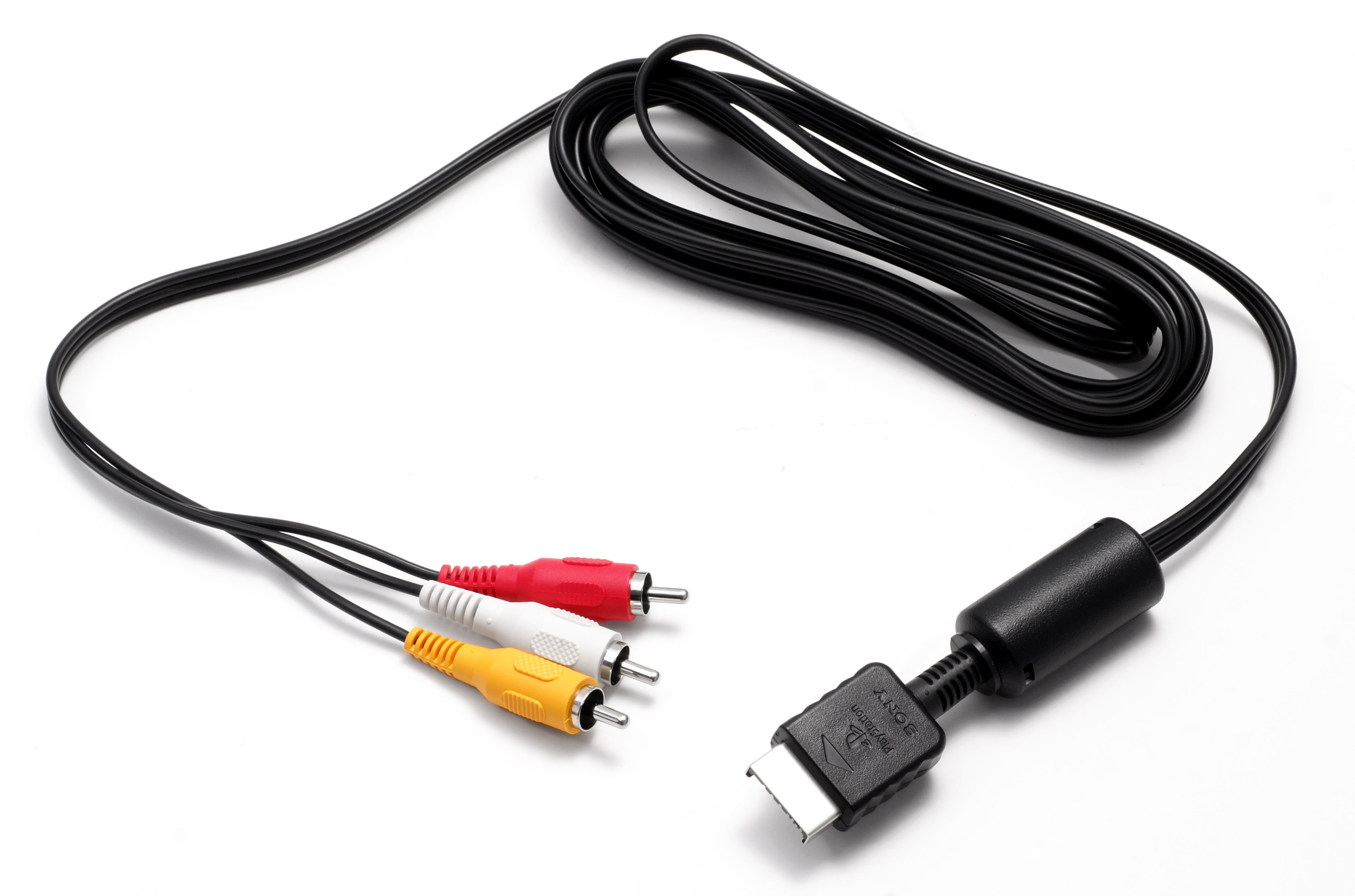 Composite video/stereo audio cable for the PlayStation, PlayStation 2 and PlayStation 3 games consoles.